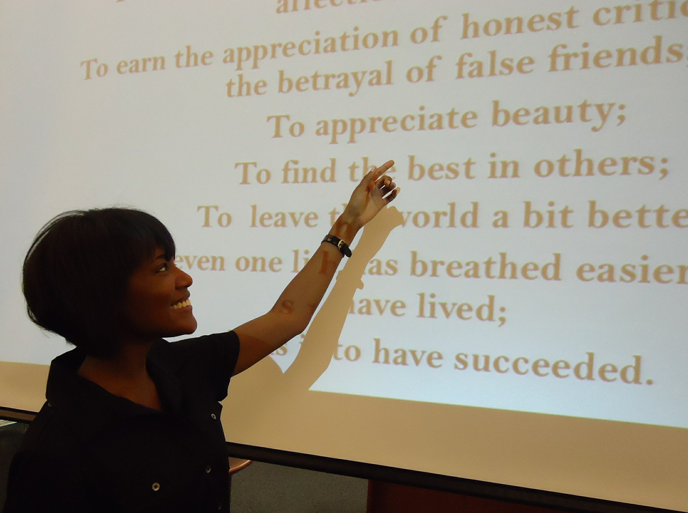 In a presentation to students and parents about applying for colleges, Summit High School guidance counselor Erin Day advises students to consider how success in their upcoming college can be defined by goals such as "appreciating beauty" and "finding the best in others."